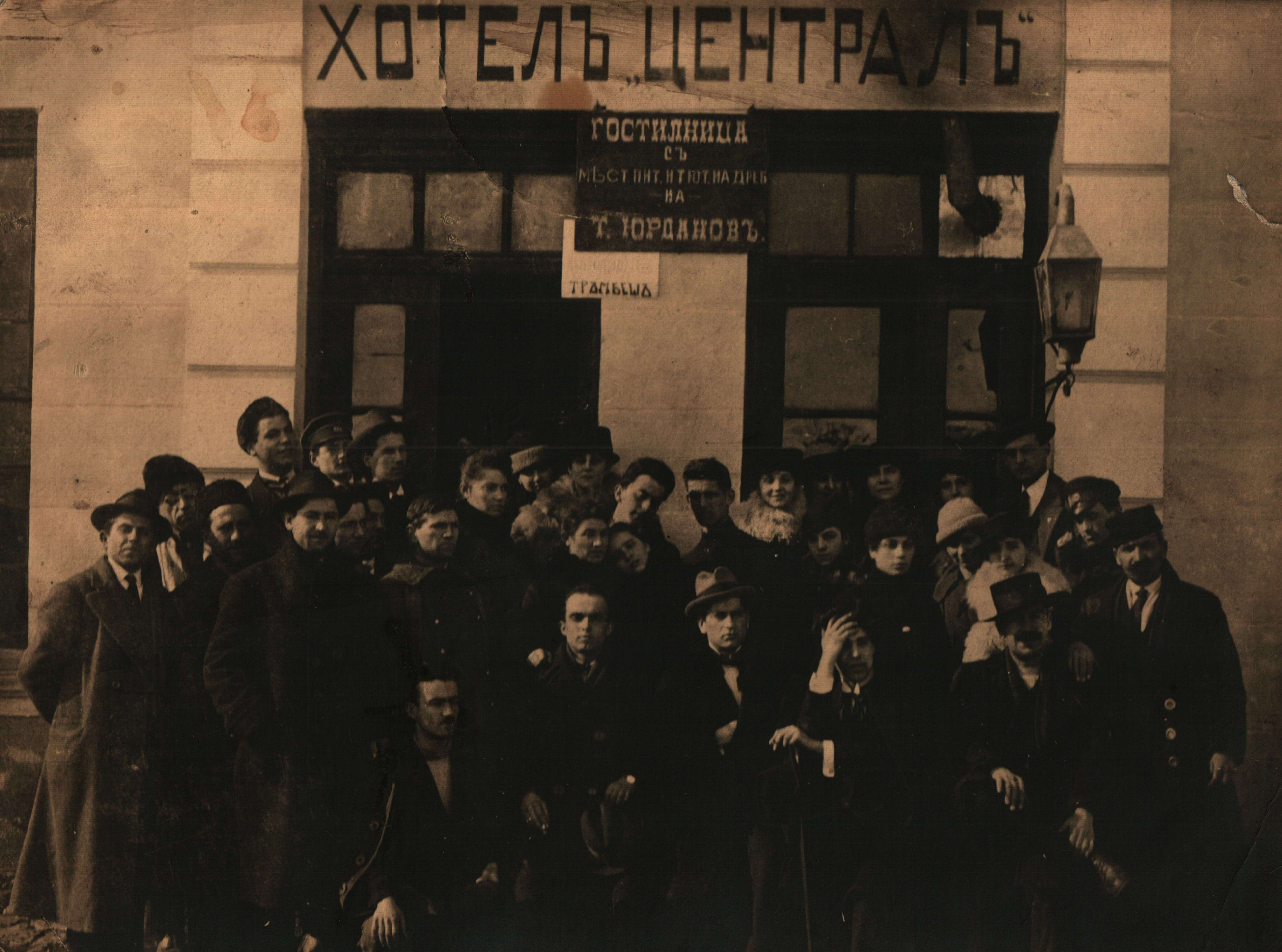 Bulgarian opereta artists